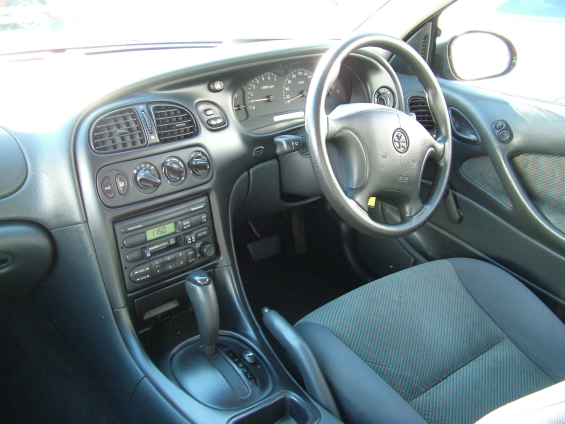 Interior of a 2000 Holden VT Commodore Executive Series II sedan.